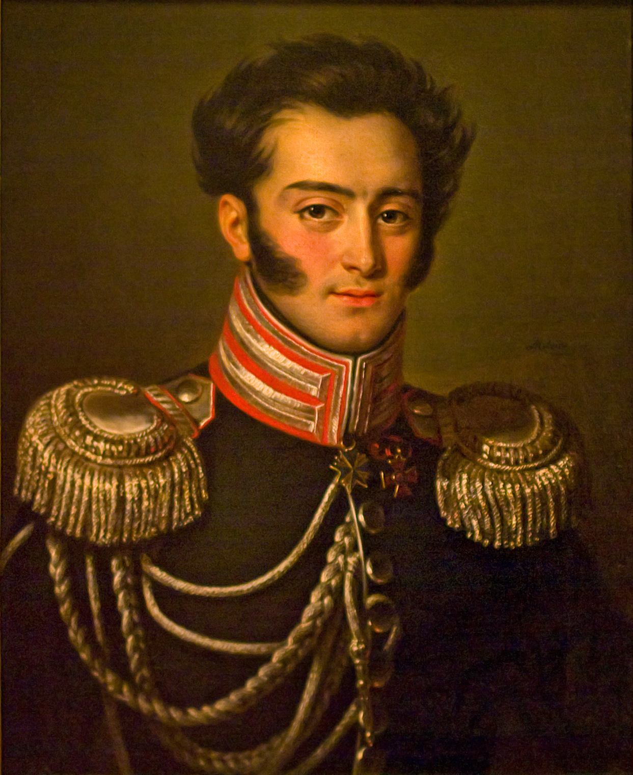 Benois Charles Mitoire 17?? - no early 1830, Portrait of Ilya Bibikov in uniform of Aide-de-camp of the Guard (1825). Oil on Canvas